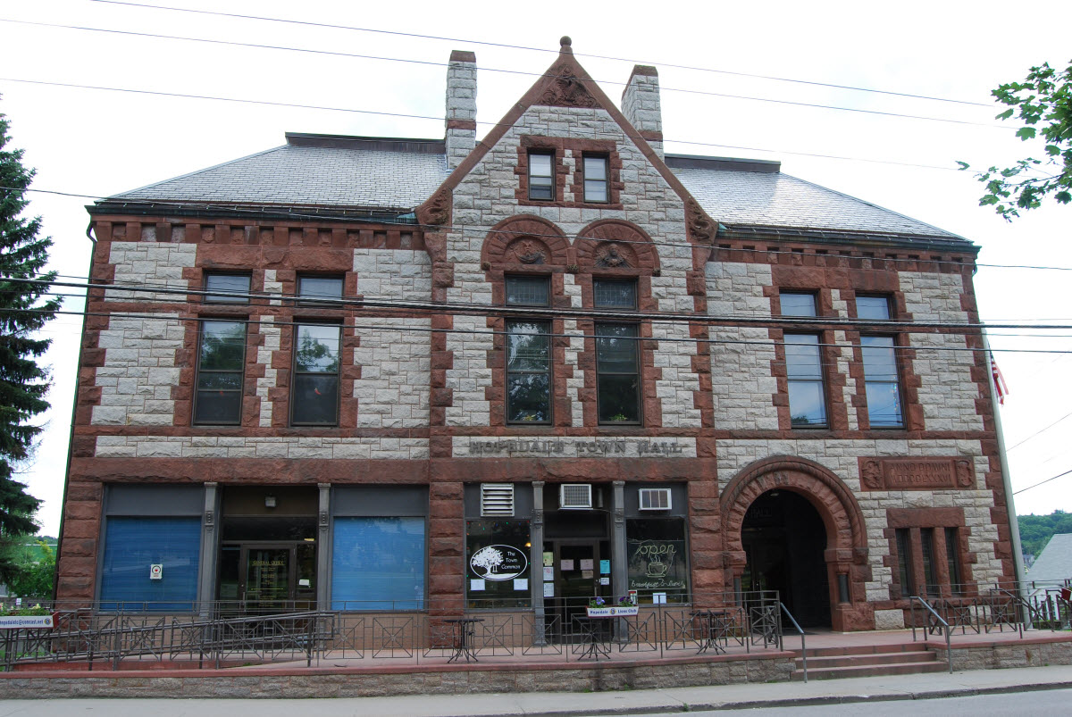 Town Hall, Hopedale, Massachusetts